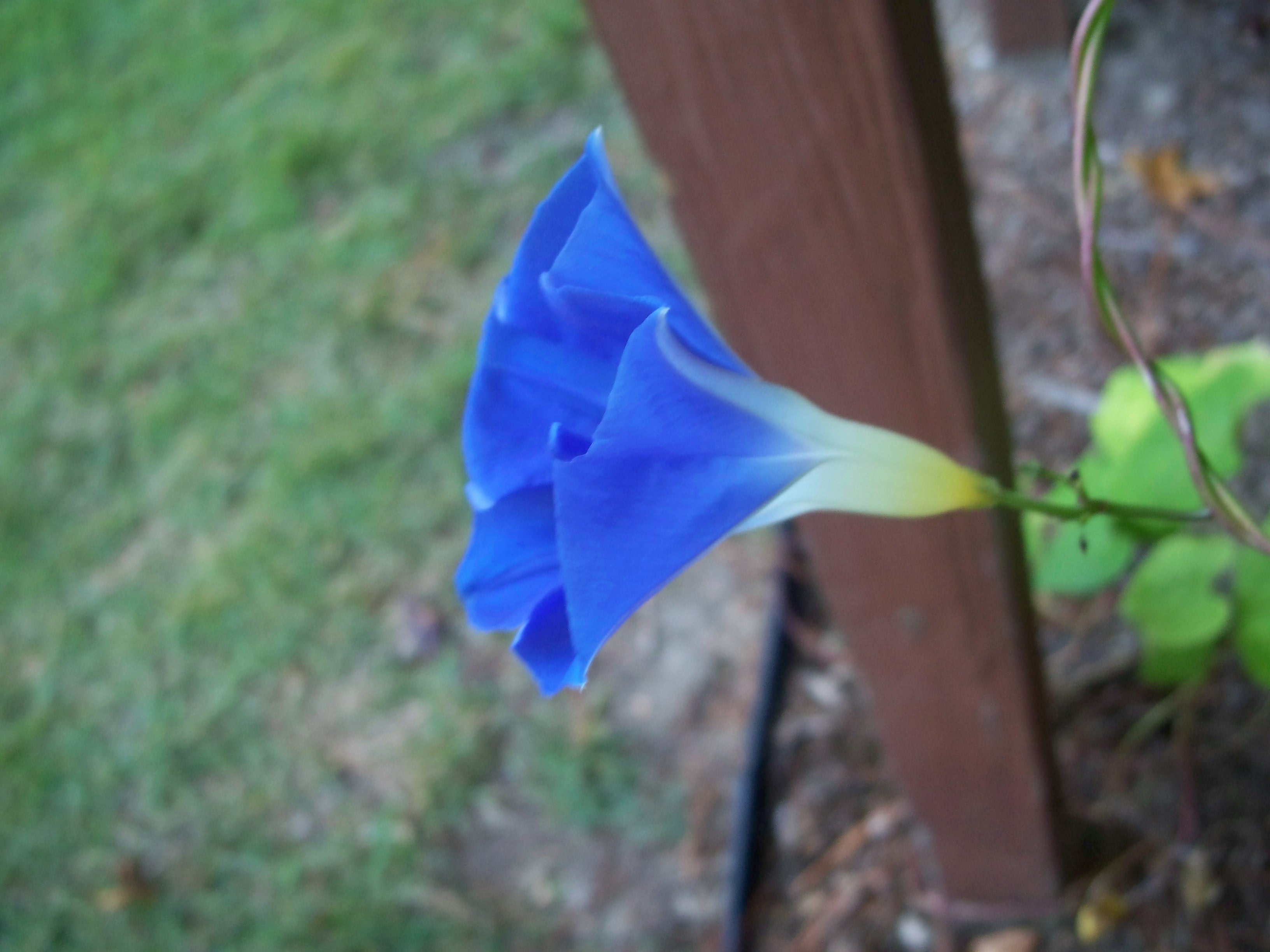 Morning Glory in my yard, had to take it whilst it was opening. Enjoy!